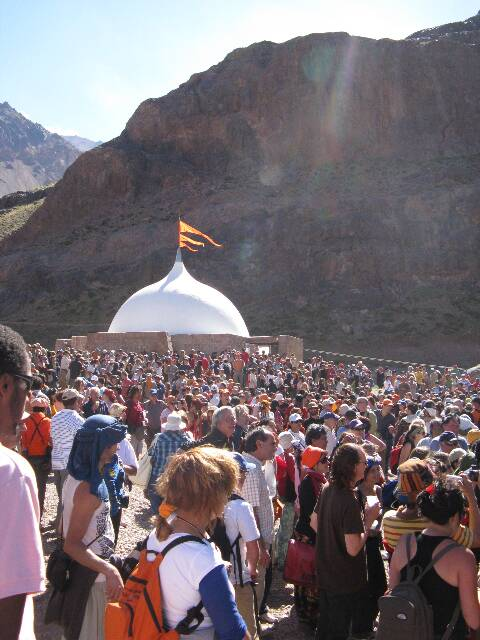 Picture of the Hall with people, days after the end of World March for Peace and Nonviolence